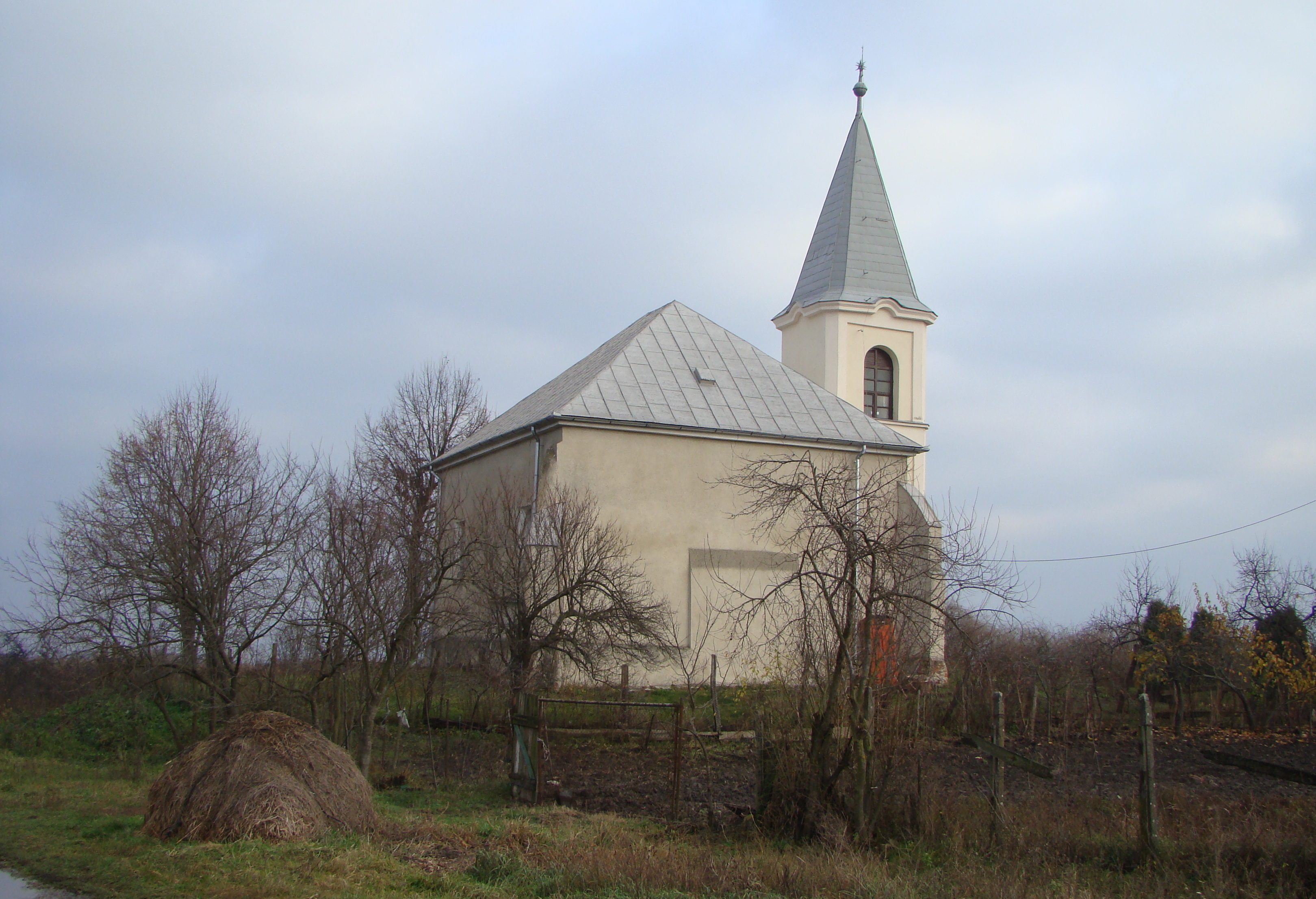 Reformed church in Parhida (Pelbárthida), Bihor county, Romania